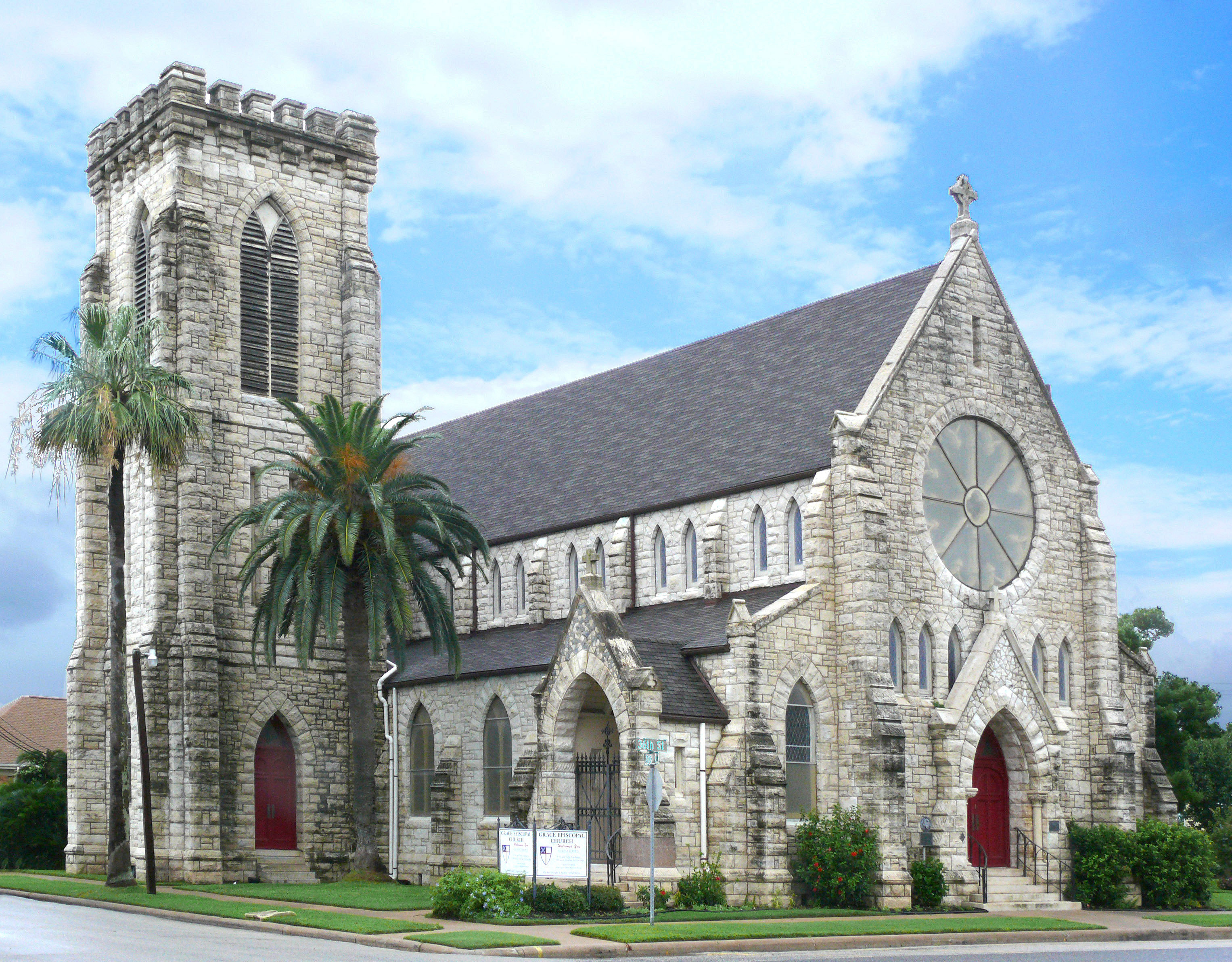 Founded 1874 as a mission of Trinity Church. In 1876 became an independent parish under the Rev. Jeremiah Ward, Rector. The Gothic style church was designed in white limestone by Nicholas J. Clayton, architect.